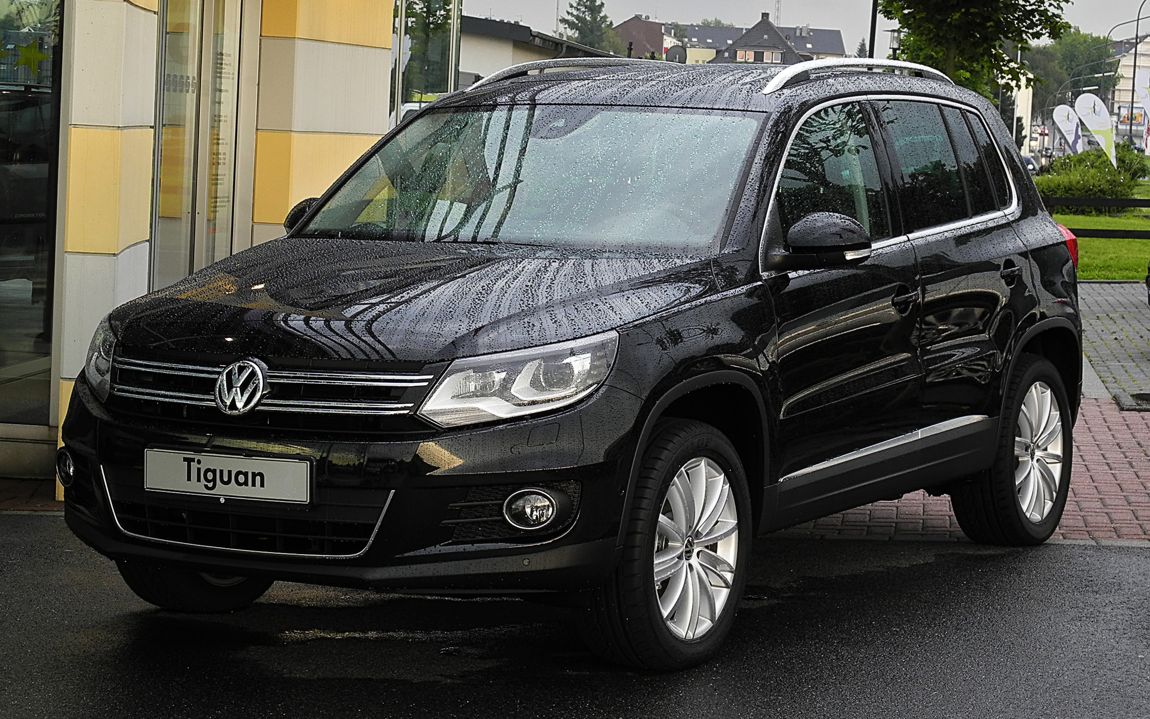 VW Tiguan Sport & Style 2.0 TSI 4MOTION (Facelift)